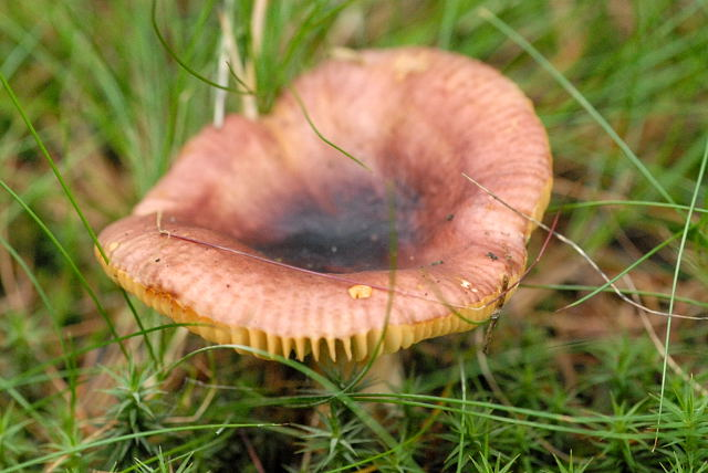 Russula puellaris from Commanster, Belgium. The determination of the species shown in this picture has been verified.